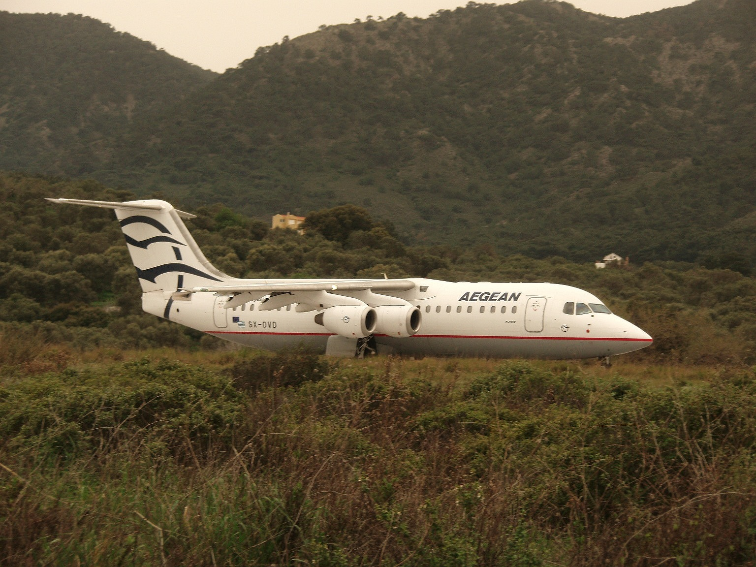 SX-DVD, a BAE Avro RJ-100 of Aegean Airlines (C/N E3362) ready to take off using runway 32 at Mytilene International Airport LGMT (2008-03-23). Aegean operated six RJ100s (SX-DVA to SX-DVF) between 1999 and 2010/2011. (P3230001)